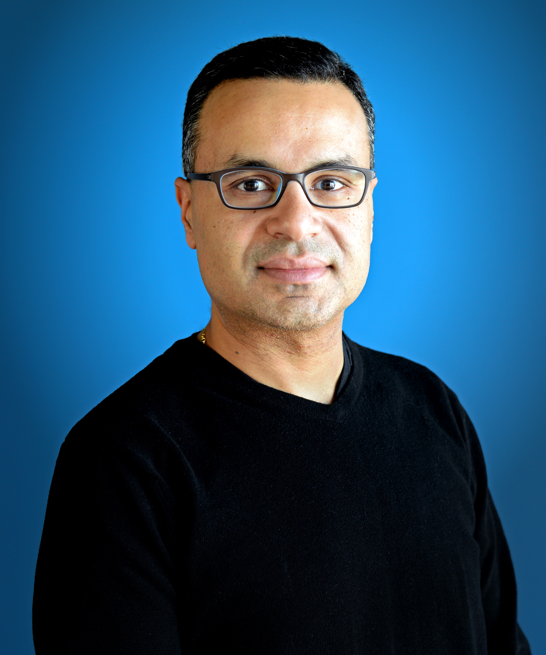 portrait of Professor Ihab Ilyas taken in the Davis Centre at the University of Waterloo